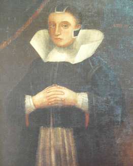 17th-century portrait of Anna Jonsdatter, wife of regional bailiff (fogd) Peter Jacobsen a.k.a Peter Jacobsen Falch of the Tjøtta Estate.